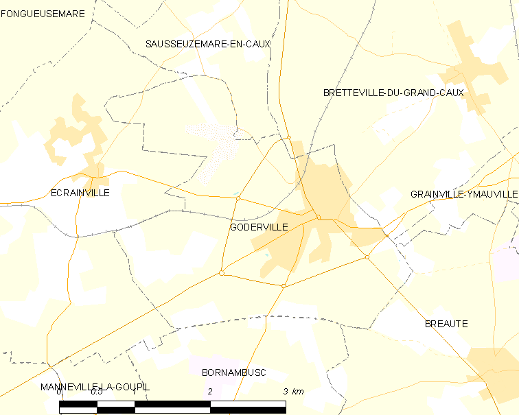 Map of French municipality Goderville